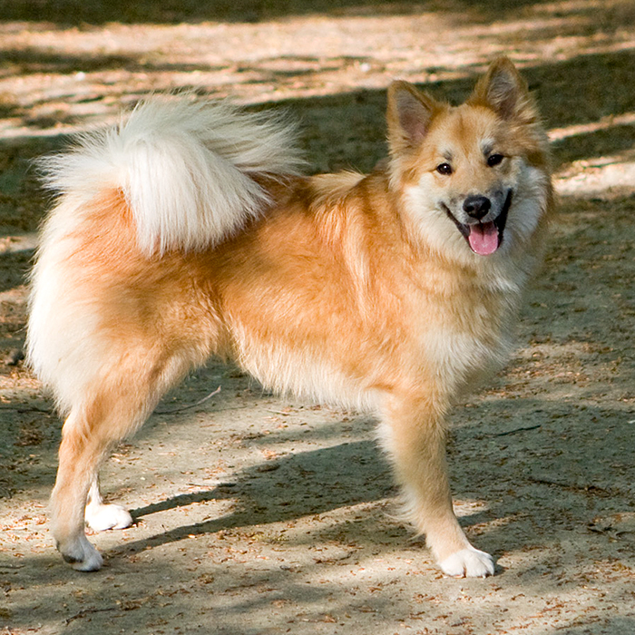 Icelandic Sheepdog Alisa von Lehenberg, 1 year 7 months old.